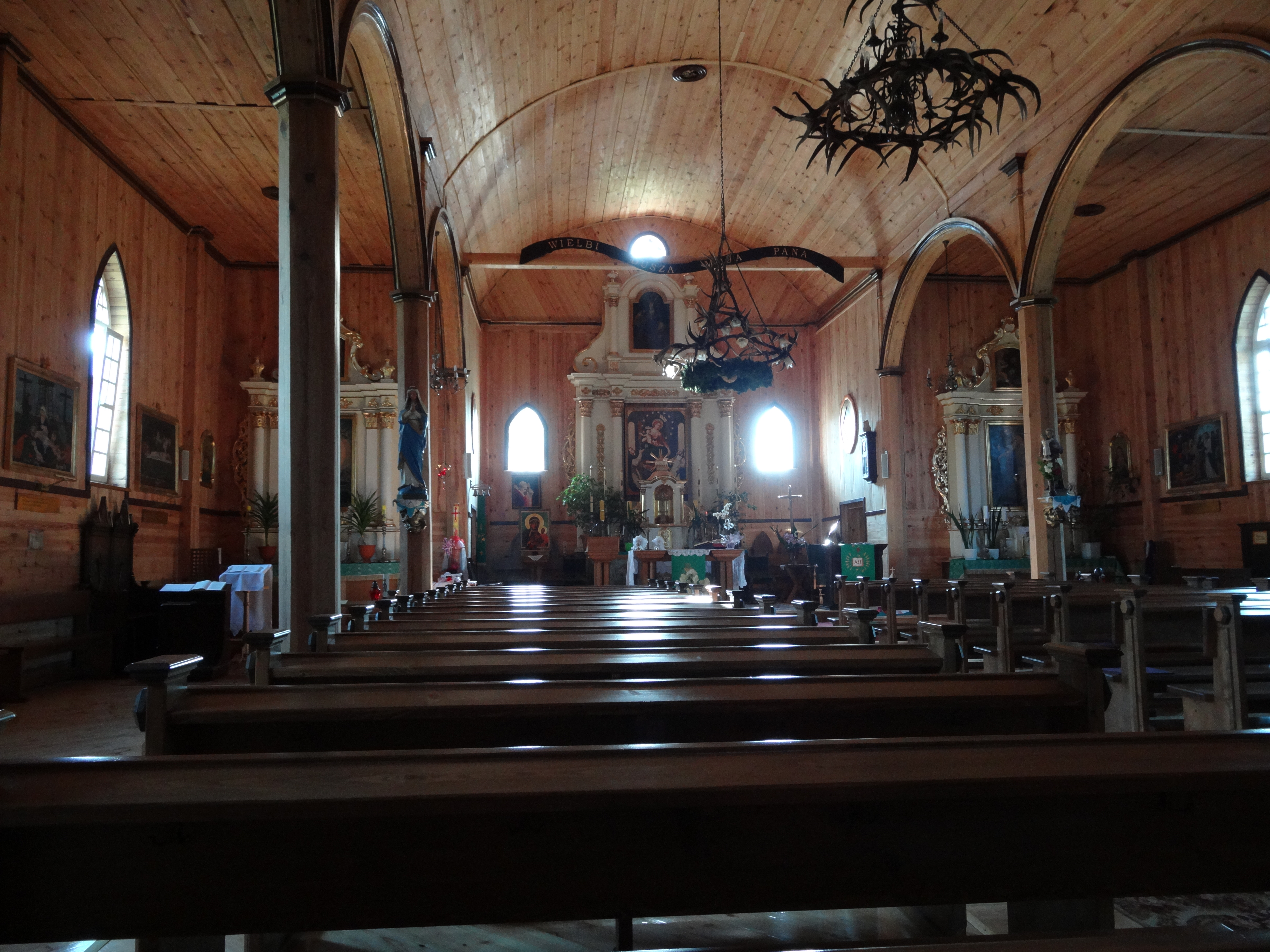 Church of the Assumption in Berżniki, Poland